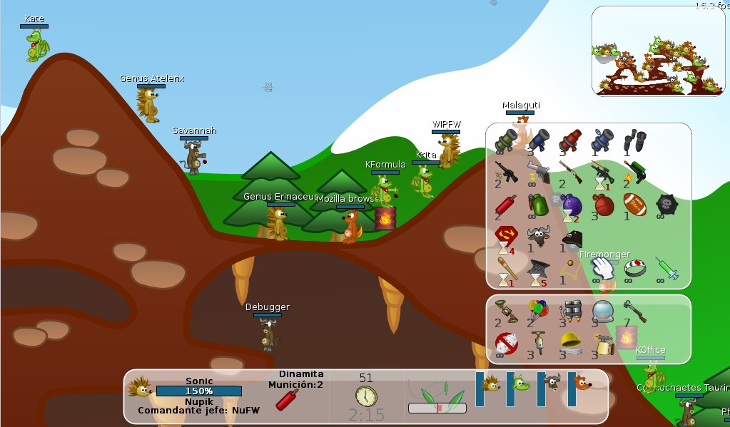 Personal Screenshot